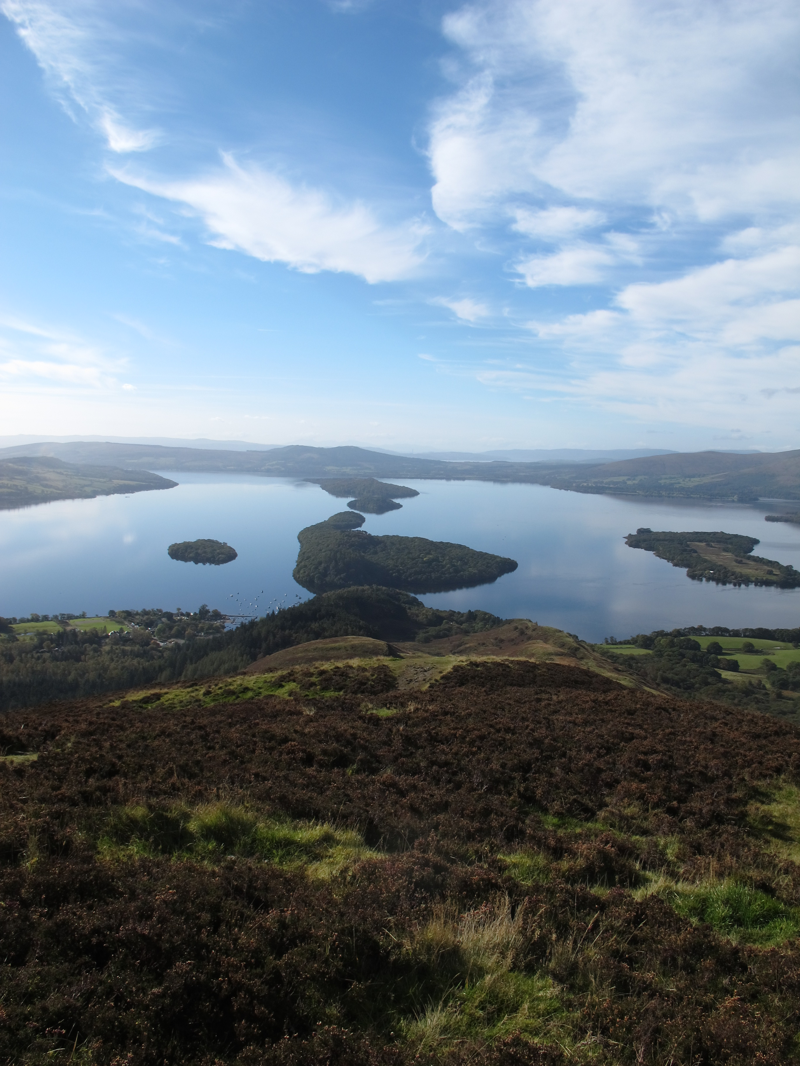 View looking southwest from Conic Hill near Balmaha, along the topographic ridge associated with the Highland Boundary Fault, which bounds the Scottish Highlands - the ridge is mainly due to resistant Devonian conglomerates to the immediate southwest of the fault. The ridge can be traced across a series of islands across Loch Lomond, Inchcailloch, Torrinch, Creinch and Inchmurrin, onto Ben Bowie and finally Arran in the distance